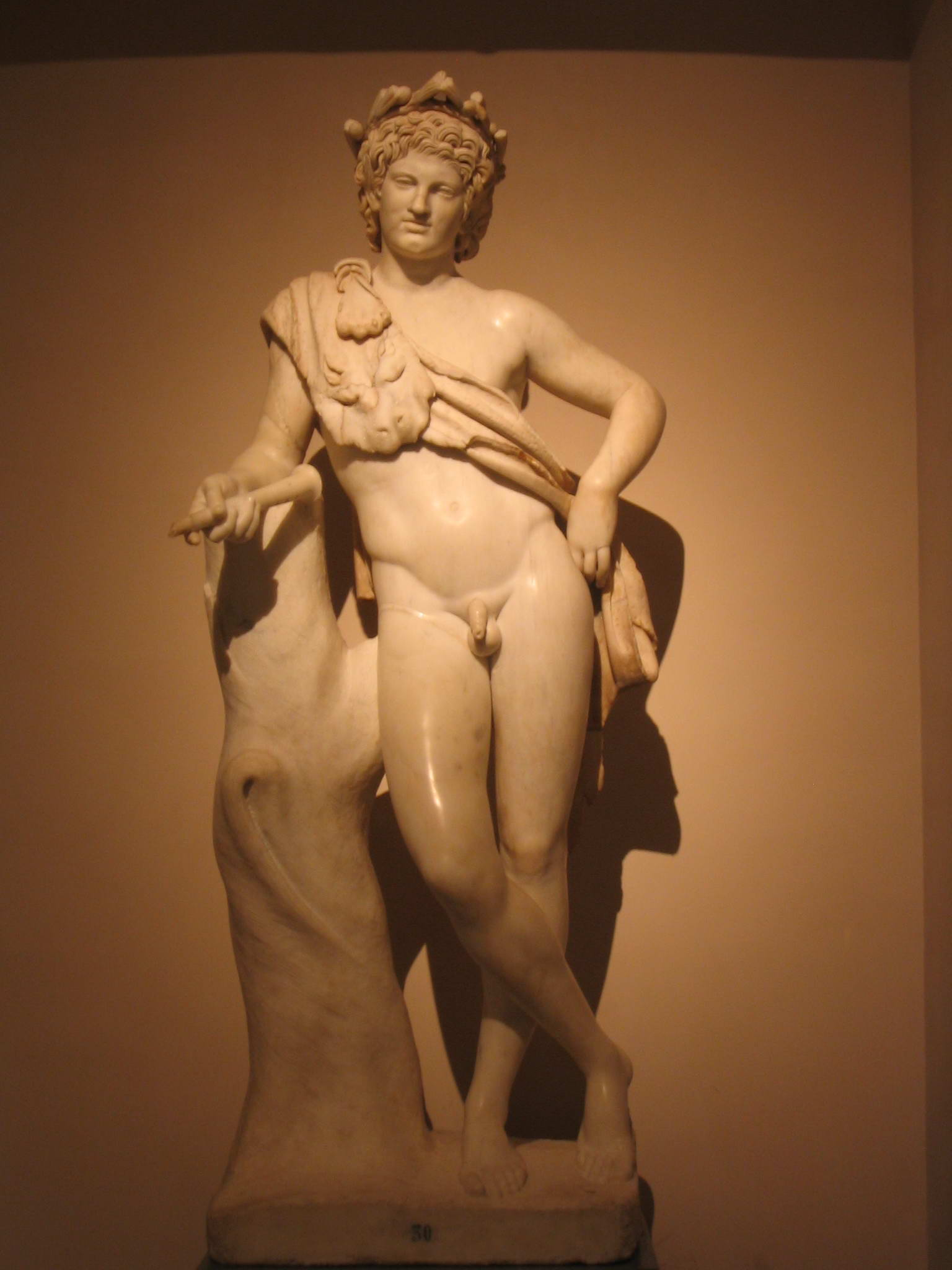 Resting Satyr. Roman artwork sculpted in marble between 150 and 175 CE. It's a copy of a Greek original from between 340 and 330 BC approx., attributed to Praxiteles.